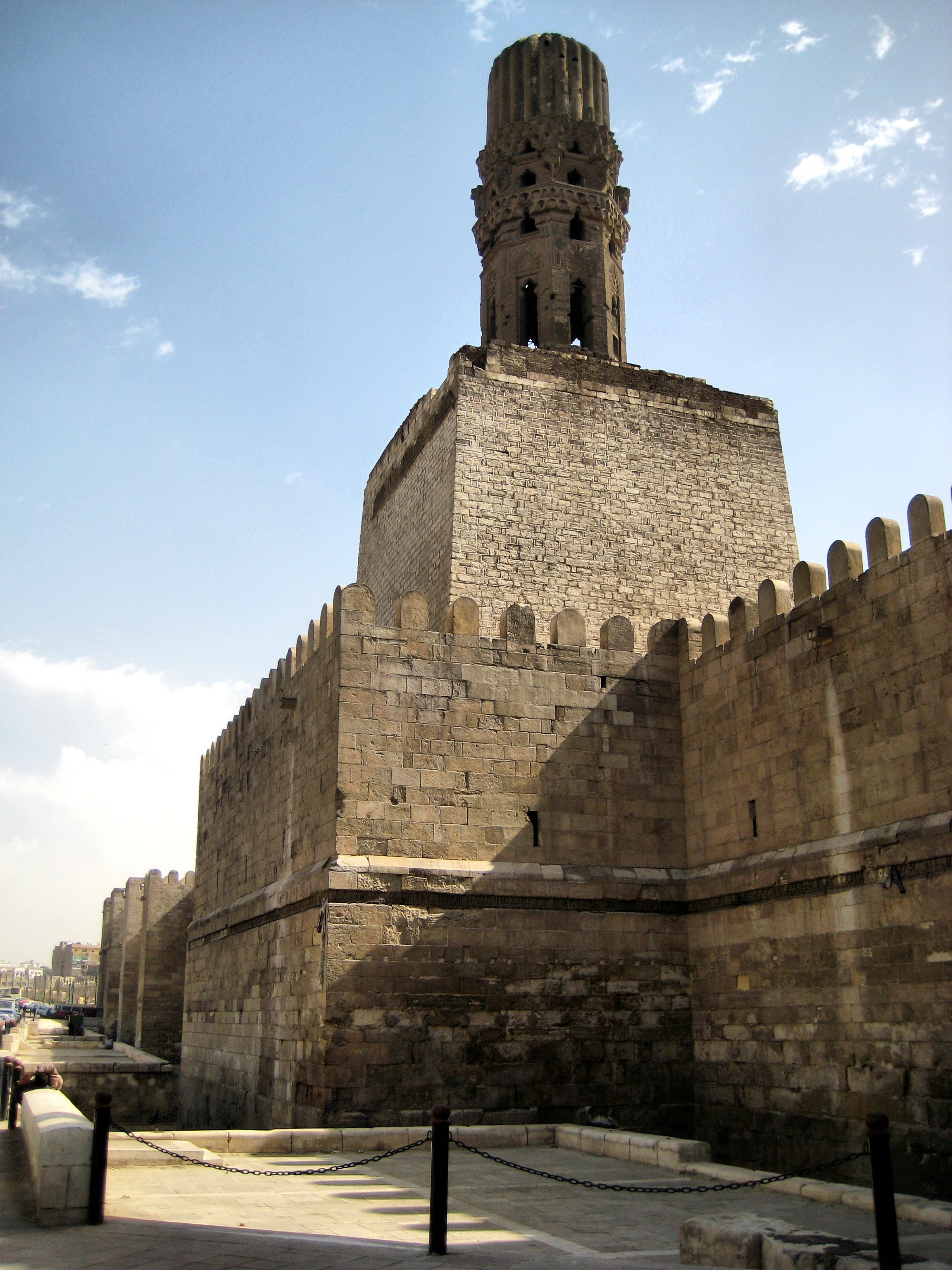 Old Cairo Walls